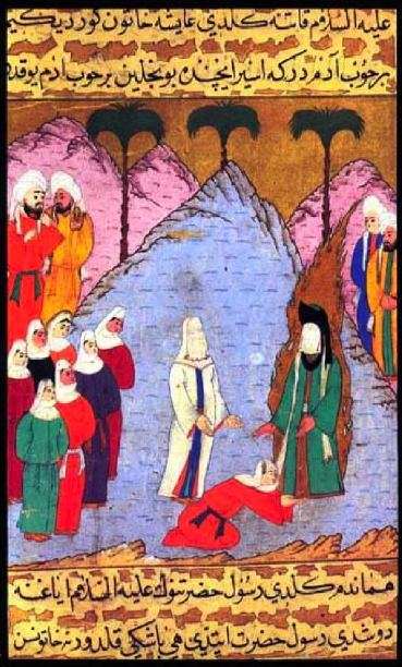 Mohammed and his wife Aisha freeing the daughter of a tribal chief. From the Siyer-i Nebi.